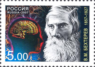 Stamps of Russia. The 150th birth anniversary of psychoneurologist V.M.Bekhterev (1857-1927), 2006